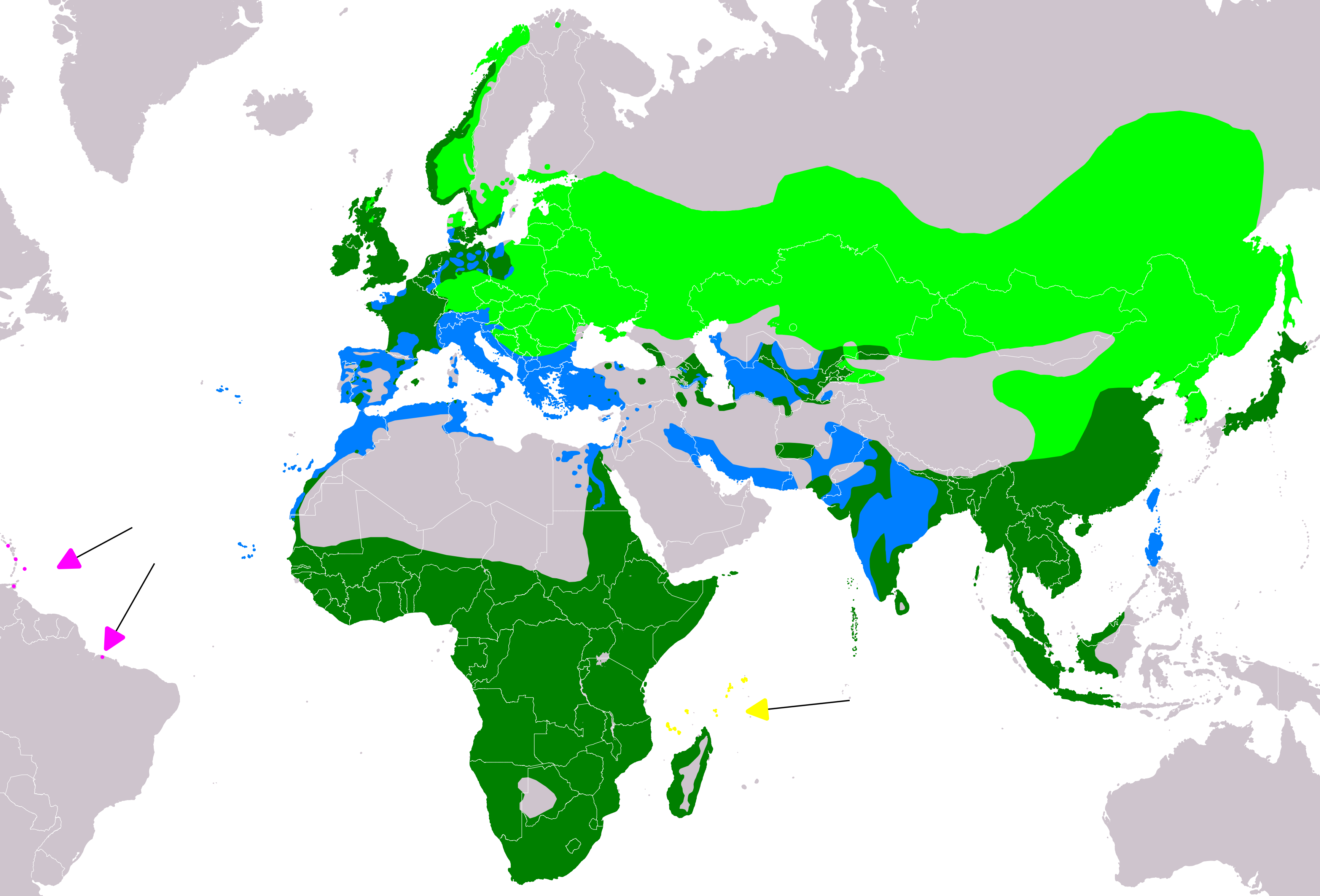 Distribution map of grey heron (Ardea cinerea) according to IUCN version 2019-2 ; key: Legend: Extant, breeding (#00FF00), Extant, resident (#008000), Extant, non-breeding (#007FFF), Extant & Vagrant (seasonality uncertain) (#FF00FF), Extant & Introduced (resident) (#FFFF00)